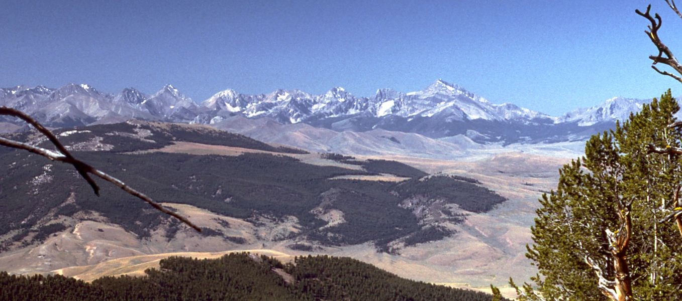 The Lost River Range in Idaho — looking southwest from Iron Creek Point in the Lemhi Range. Borah Peak is to the right of center, and Leatherman Peak (and Pass) is just left of center.